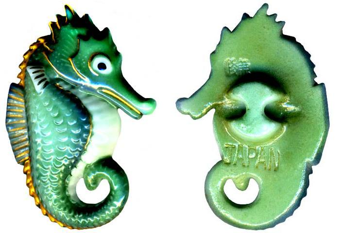 Arita porcelain 'realistic' seahorse button, front & back